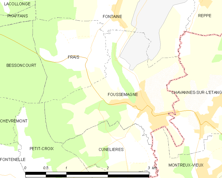 Map of French municipality Foussemagne